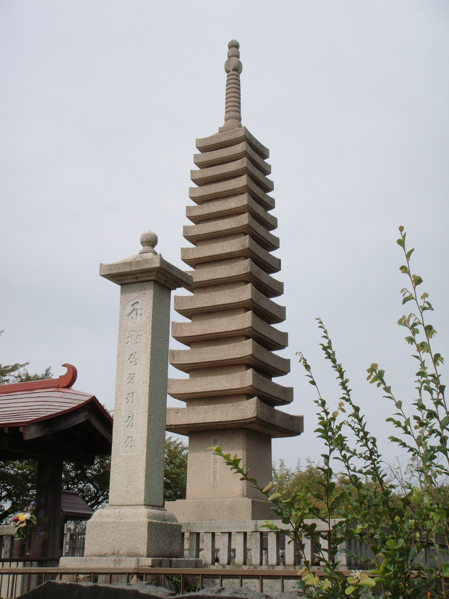 Master Xuan Zang's grave at Jion-ji temple in Saitama, Japan